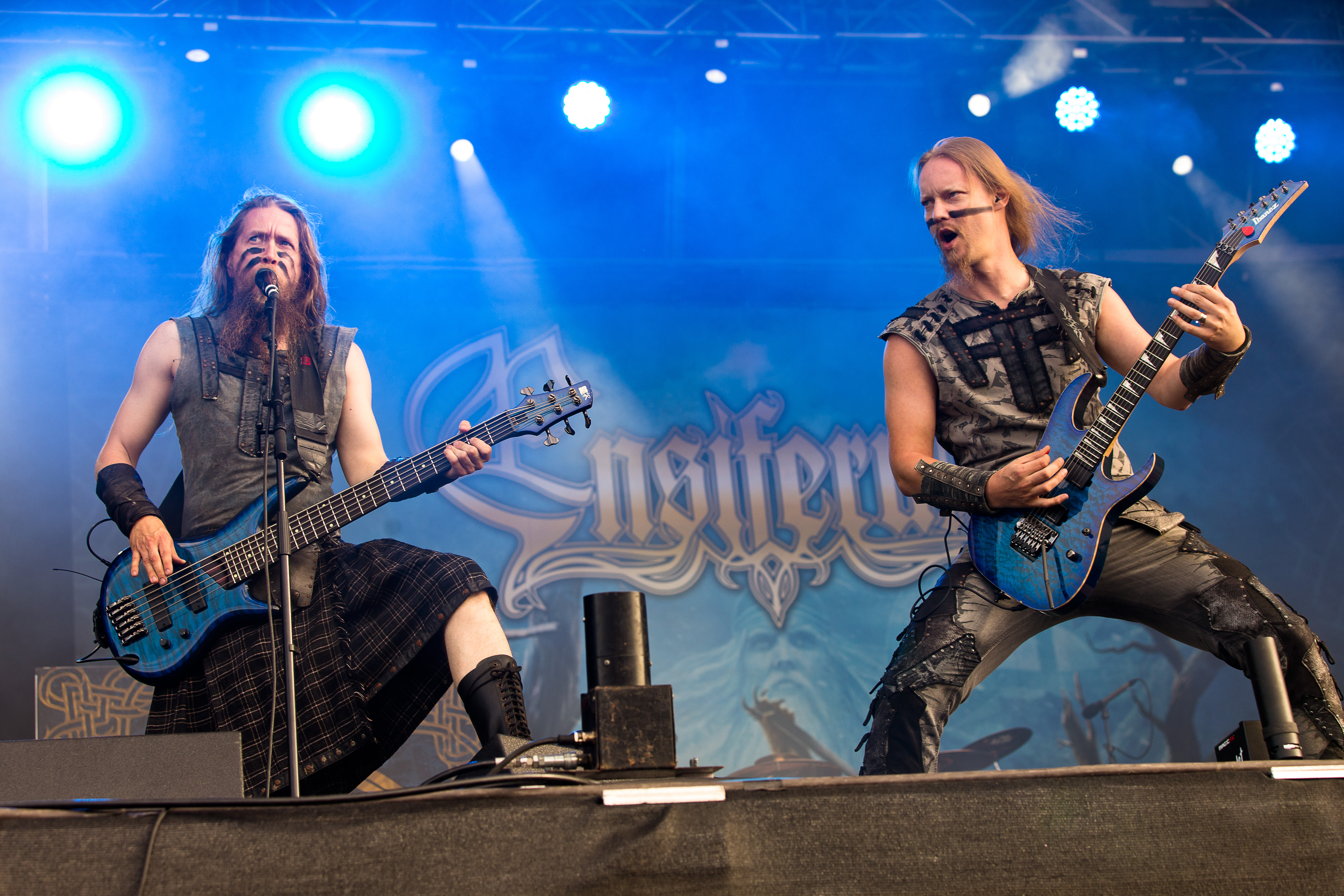 The Finnish folk metal band Ensiferum at the Rockharz Open Air 2016 in Ballenstedt/Germany.